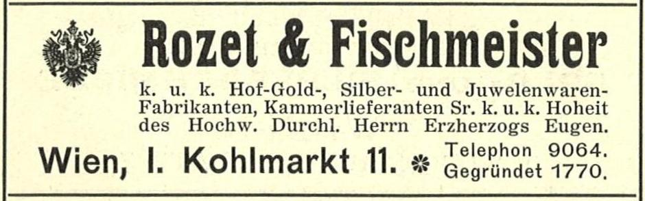 old advertisement of a purveyor to the Imperial and Royal Court of Austria-Hungary.